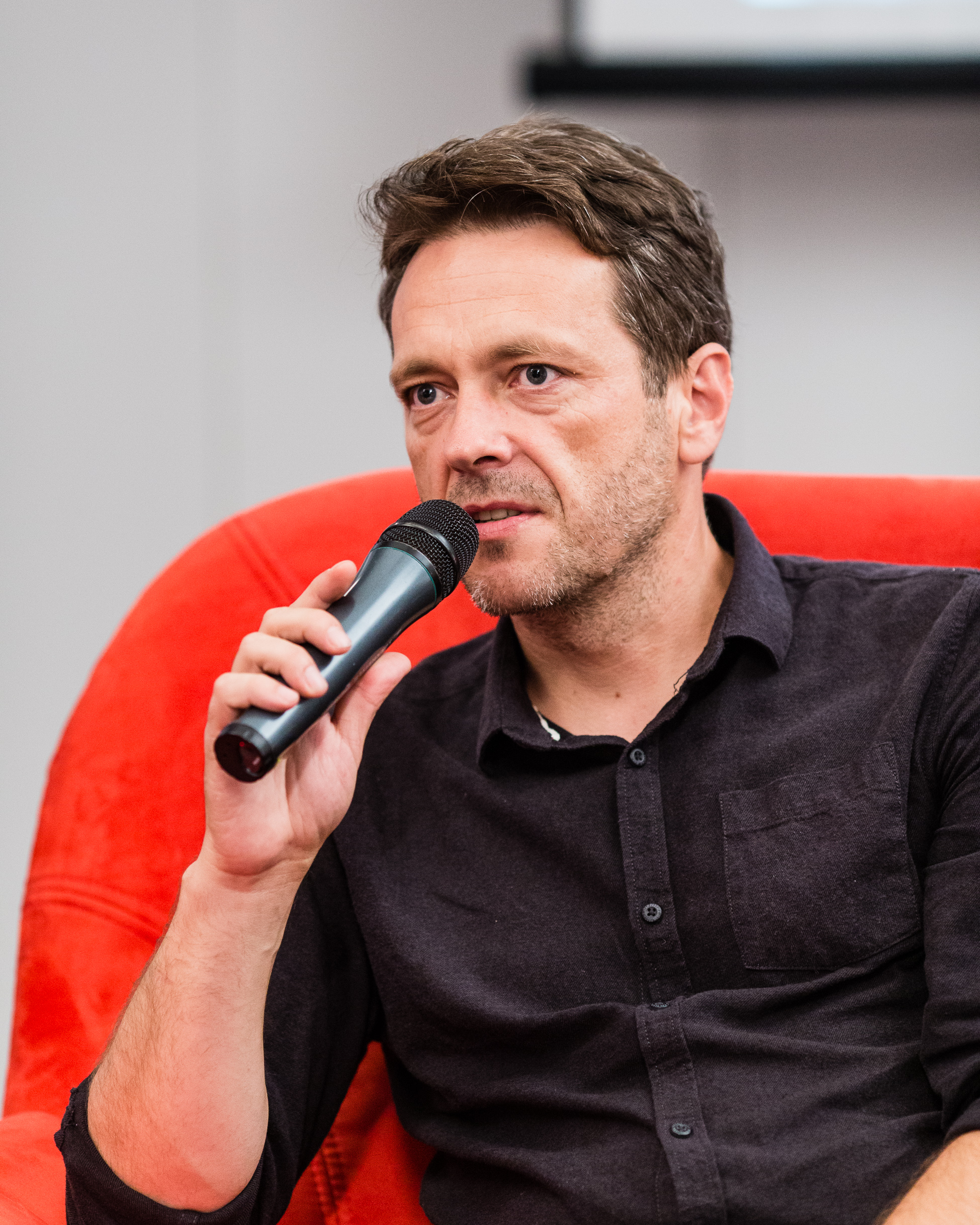 Dan Coman on Authors’ Reading Month 2019, Wrocław, Poland